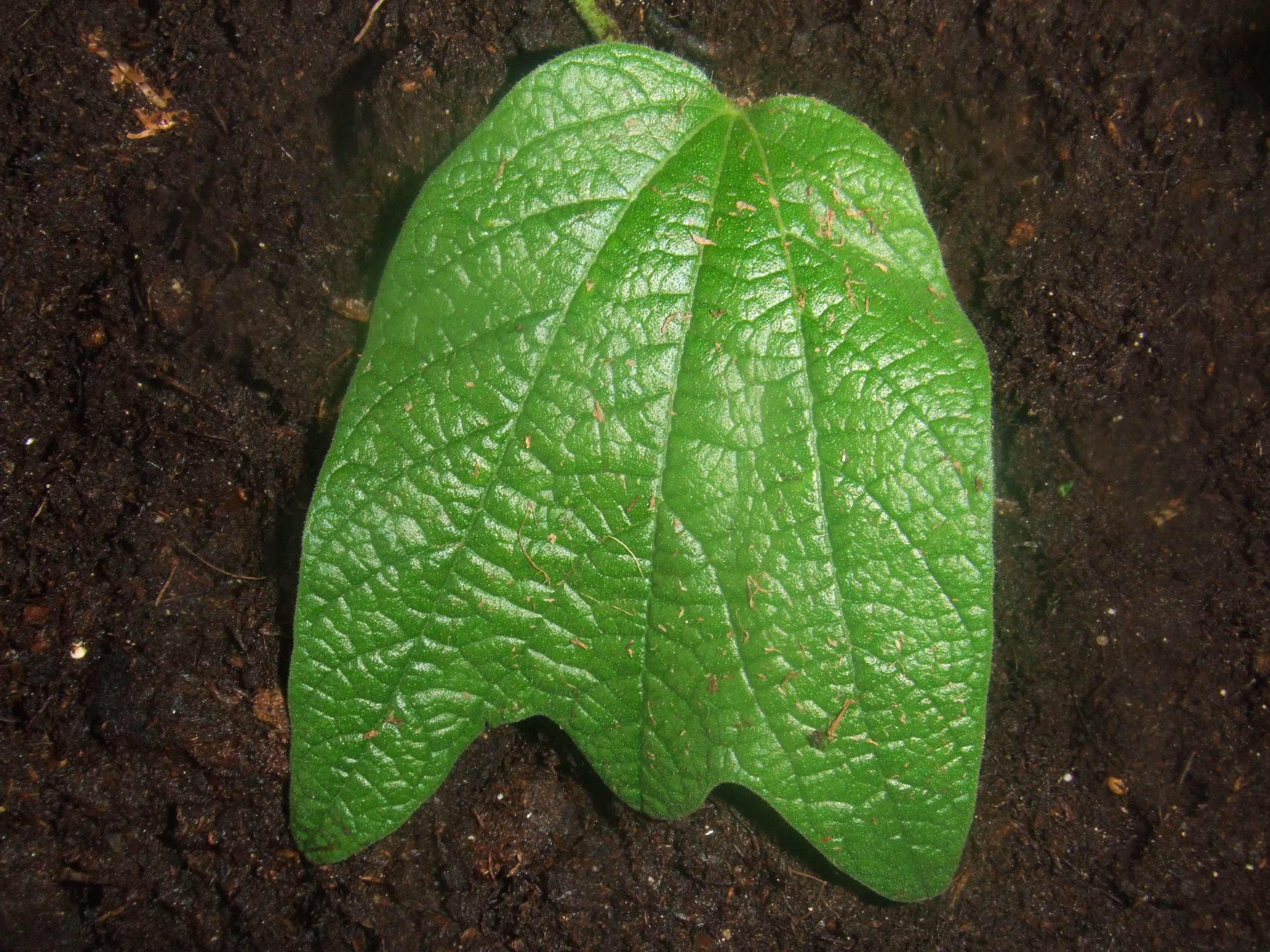 Picture of a leaf of Passiflora citrina, own collection.